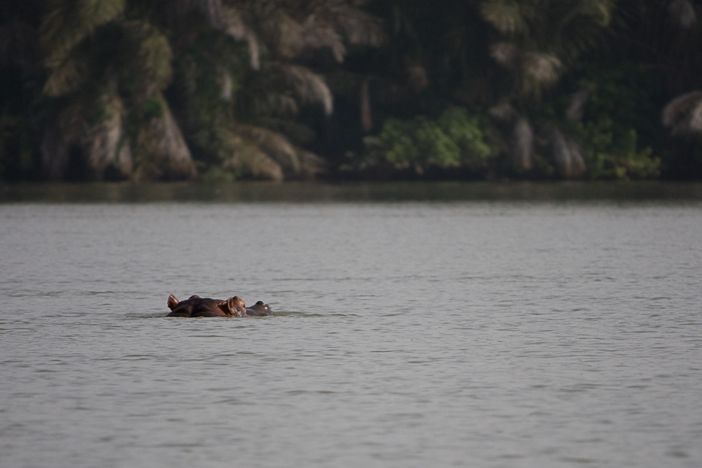 A wild hippo in the Gambia river near Georgetown.